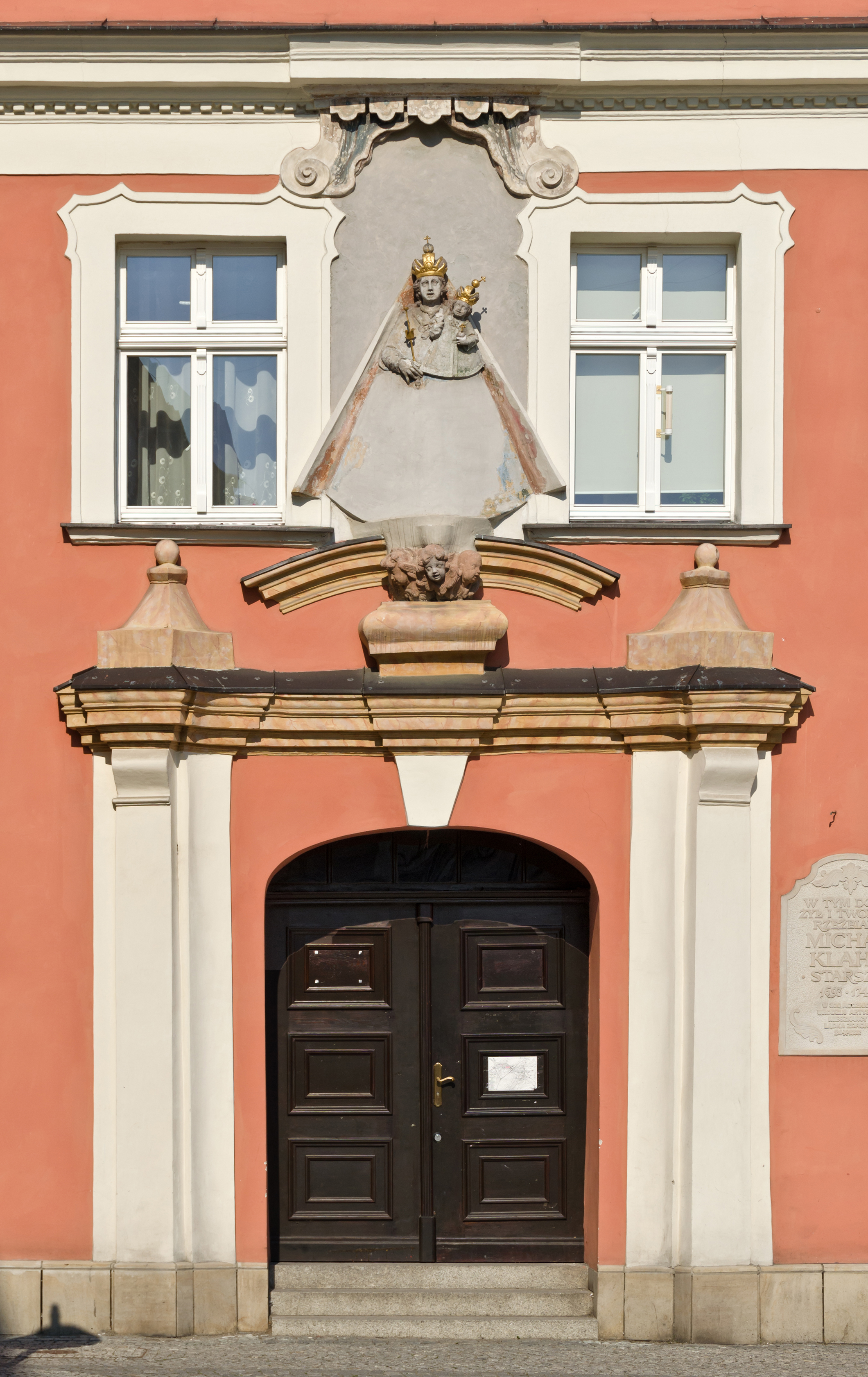 Klahr House in Lądek-Zdrój